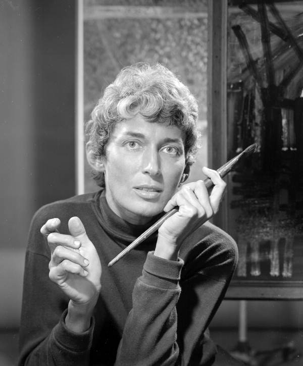 Portrait of artist Artemis Skevakas Jegart (later Housewright) - Tallahassee, Florida.